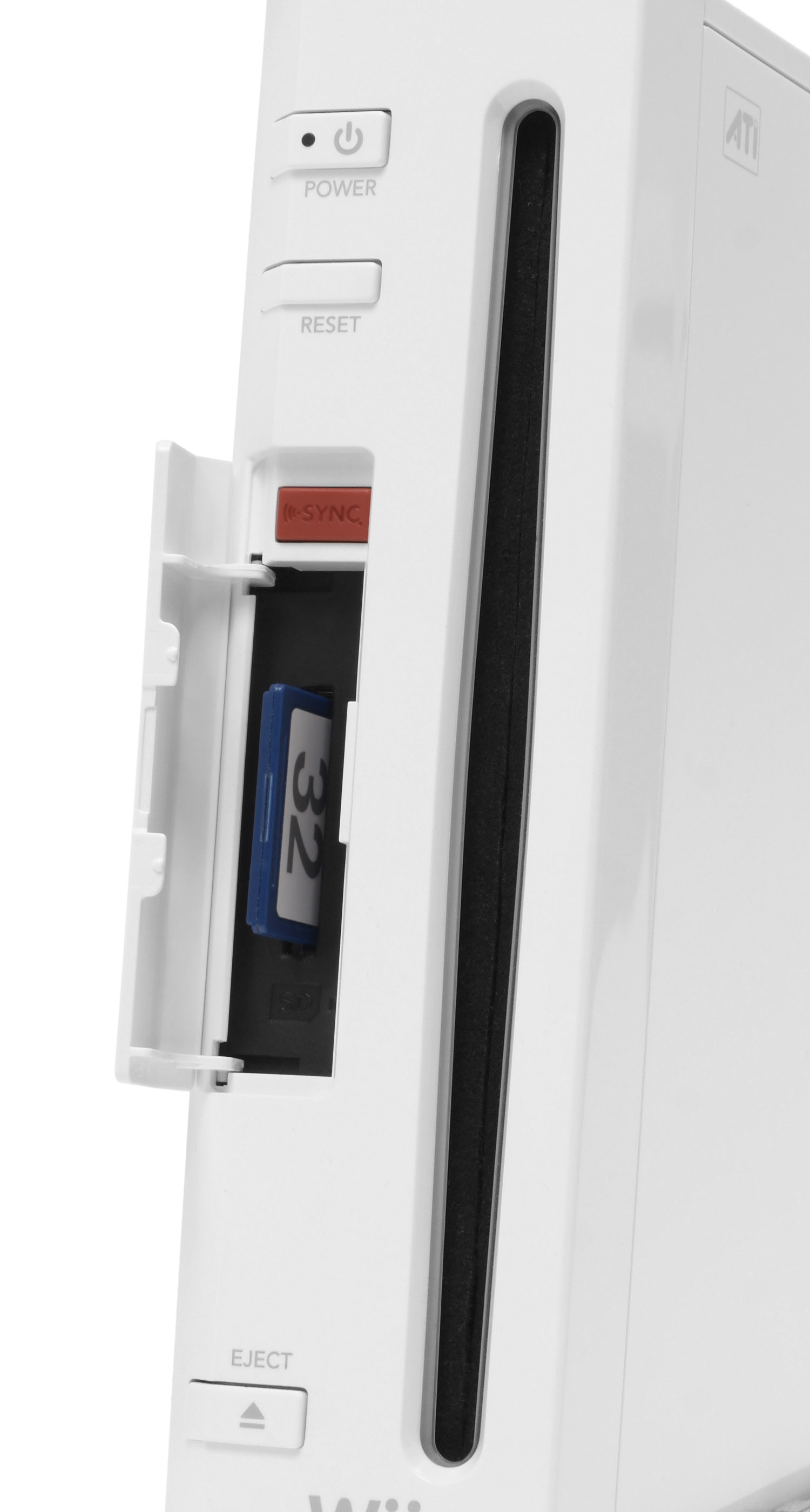 The SD card slot of the Nintendo Wii opened and shown with a 32MB card inserted part way.